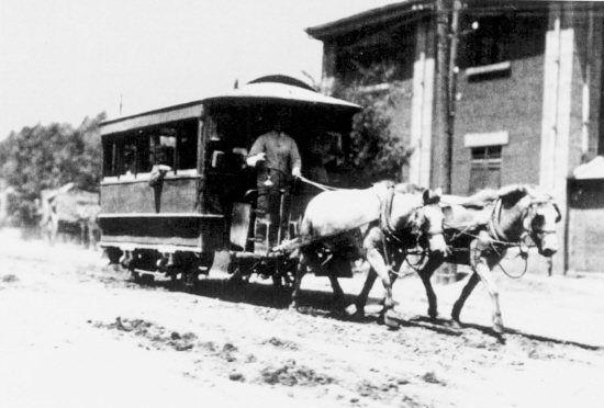 Wagonway in Shenyang, China in 1910s. The earliest public trasportation in the city.